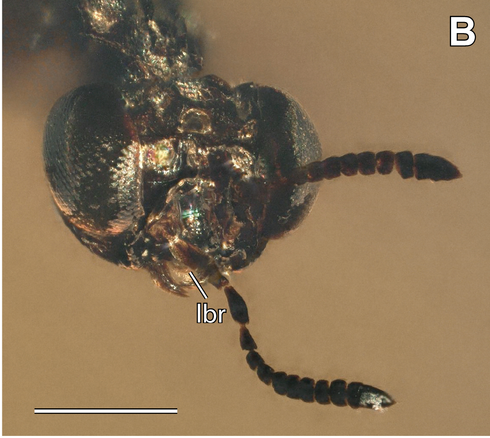 Digital microscopic images of Diversinitus attenboroughi holotype, male. (B) Head frontal. Scale bar: 2.5 mm Abbreviations: lbr, labrum